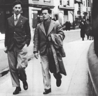 Ludwig is walking alongside Frank Skinner with a coat in his hand.